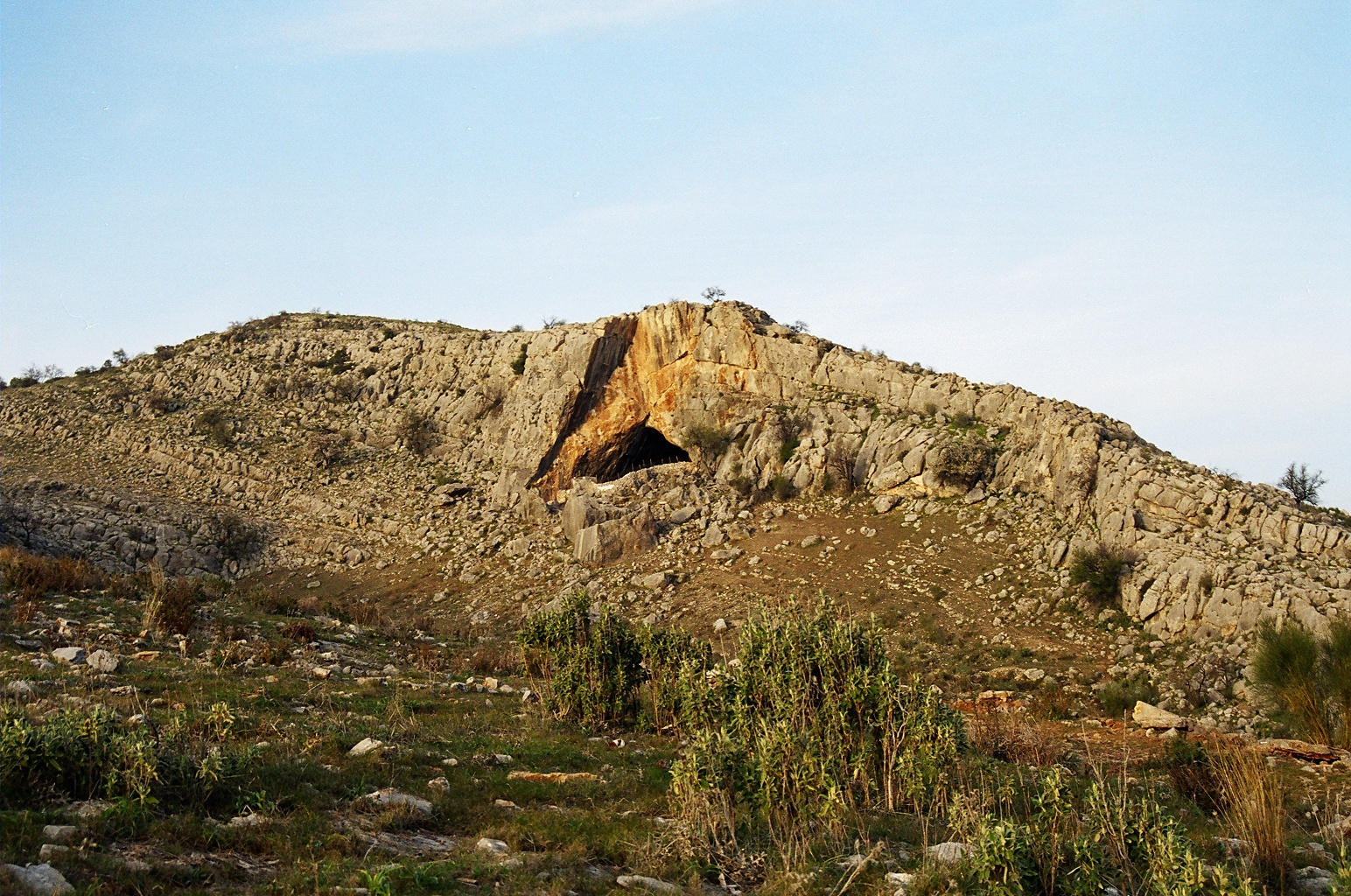 Neolithic deposit called Cueva Cabrera in La Guardia de Jaén (Andalusia, Spain)